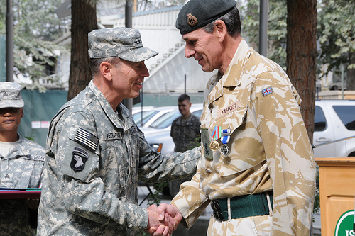 Gen. David H. Petraeus congratulates British Lt. Gen. Sir Nick Parker after pinning him with a NATO ribbon for his year-long service as deputy commander of NATO and International Security Assistance Force troops. Petraeus, NATO and ISAF commander, also presented Parker with a U.S. Meritorious Service Medal during the Sept. 28 ceremony at ISAF headquarters. Parker also received the Afghanistan President's Award from Minister of Defense Abdul Rahim Wardak.